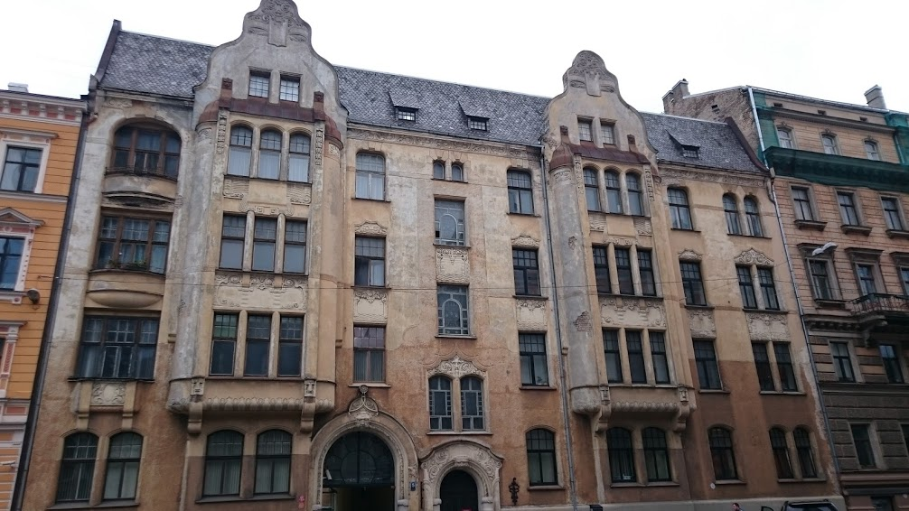 Baznīcas iela 5, Riga, Latvia. Builtː 1907. Arch.ː Friedrich Scheffel, Fridrihs Šefels